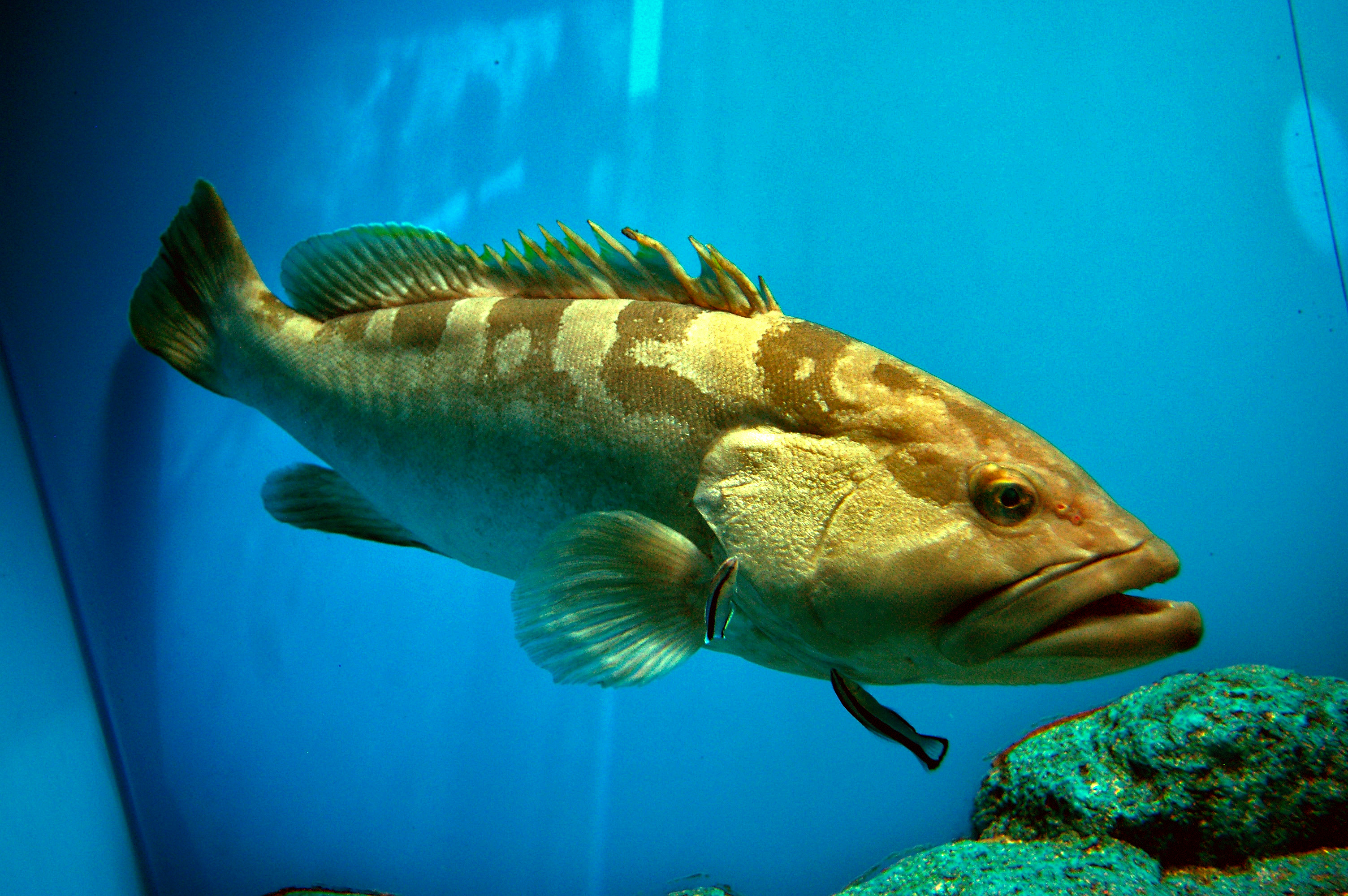 Epinephelus bruneus at Noboribetsu Marine Park NIXE, Japan.